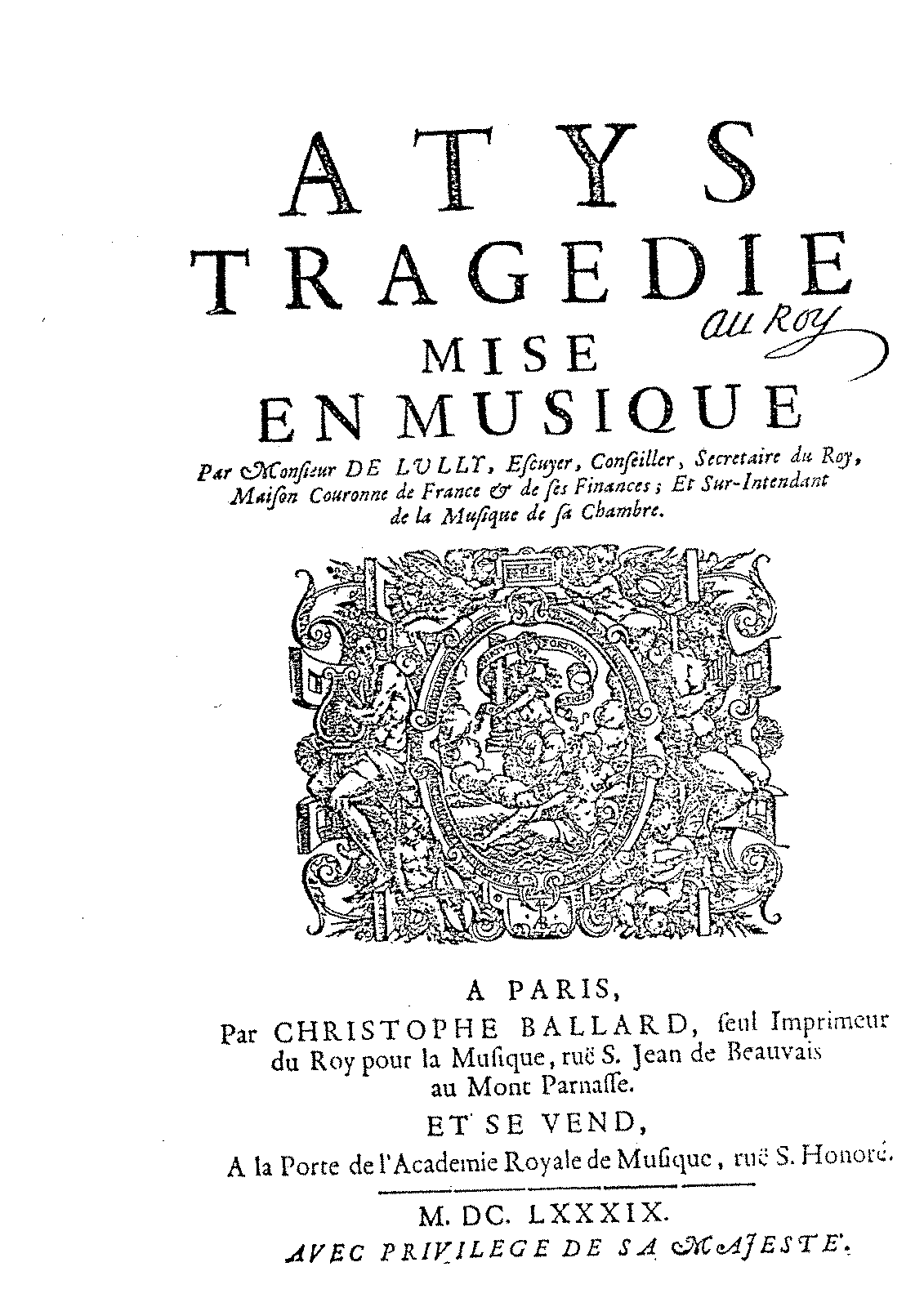 The title page of the opera Atys by Jean-Baptiste Lully